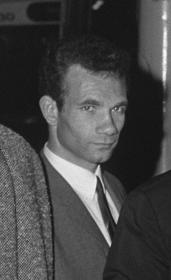 Engels voetbalelftal arriveert op Schiphol voor de wedstrijd tegen Nederlands elftal aanstaande woensdag